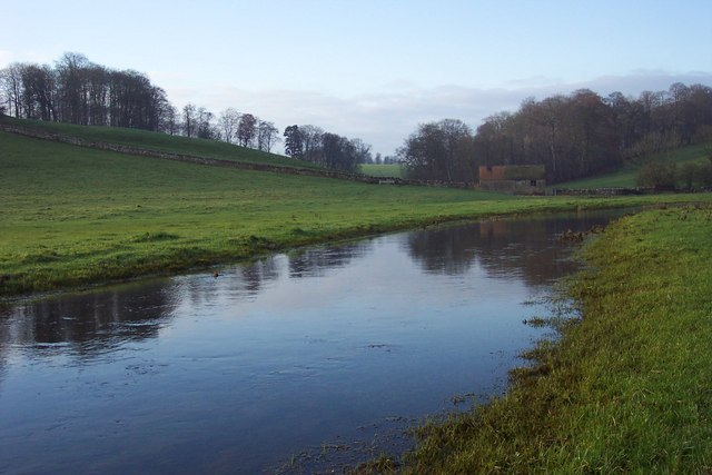 The upper River Leach - close up